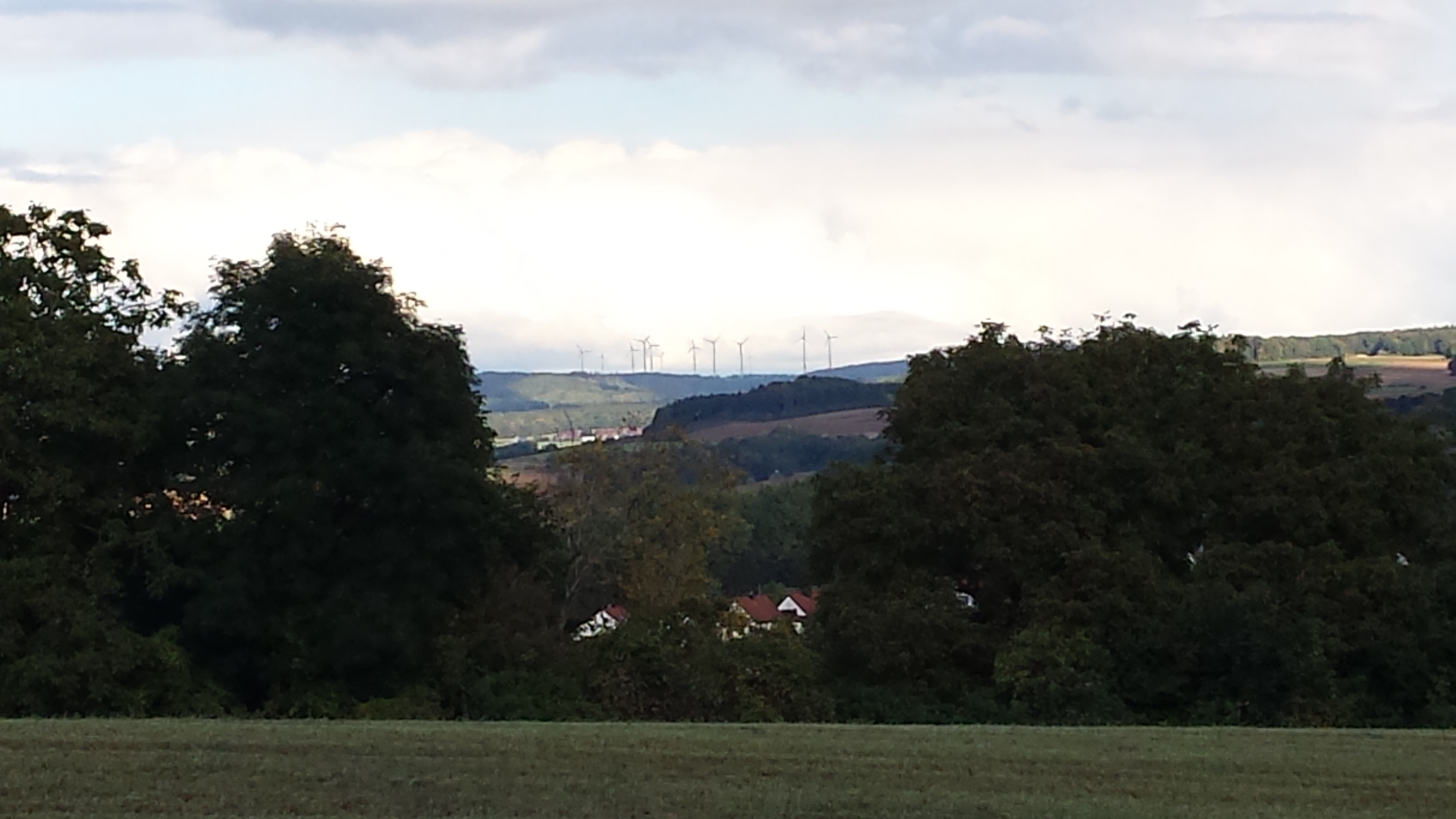 Wind farm "Hahnenkamm" on the "Fränkische Alb" mountains inside the "Naturpark Altmühltal". Seen in the distance 15 km from Oettingen, Bavaria, October 2016